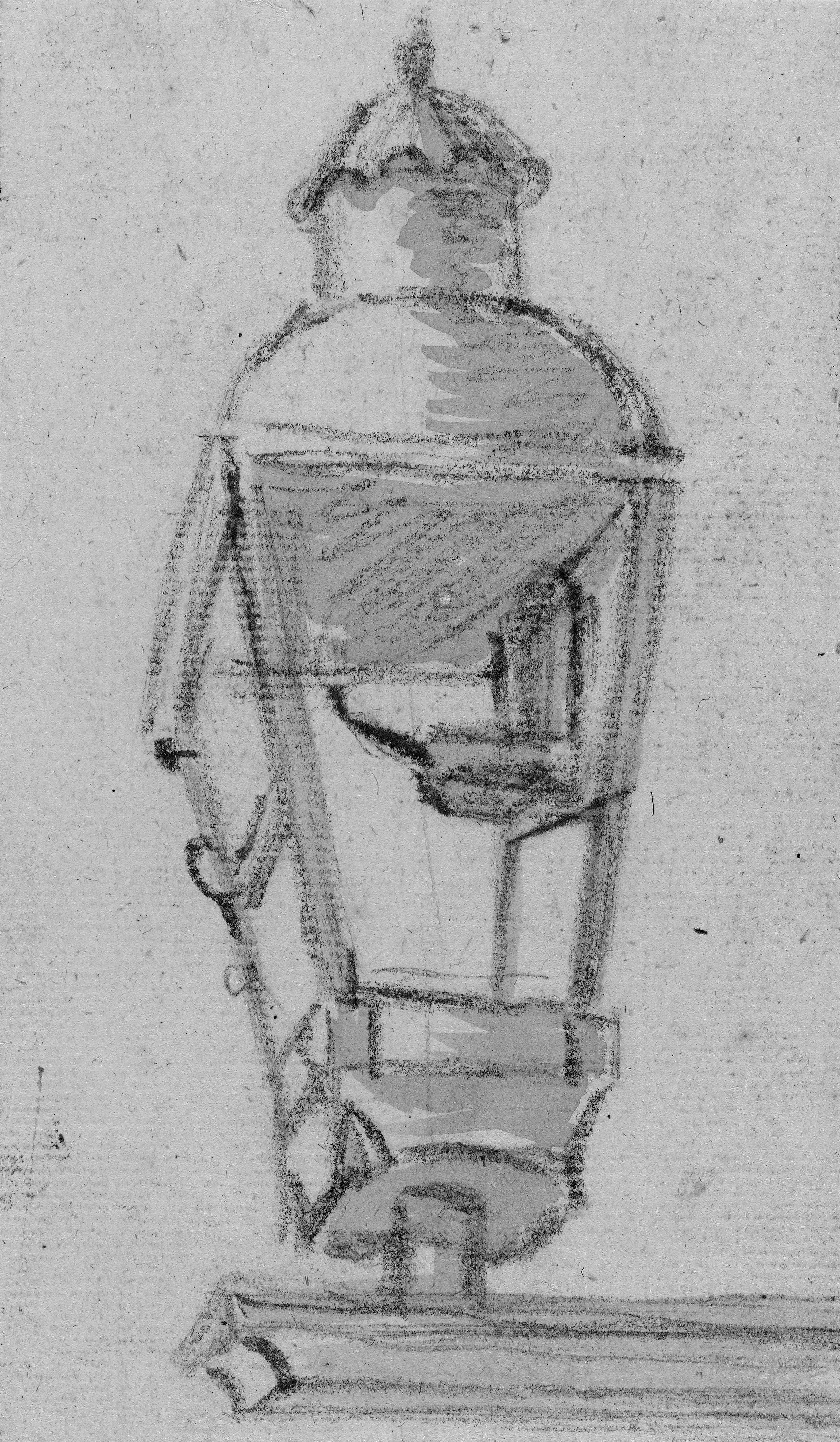 Design for a street light lantern (between 1674-1679) by Jan van der Heyden